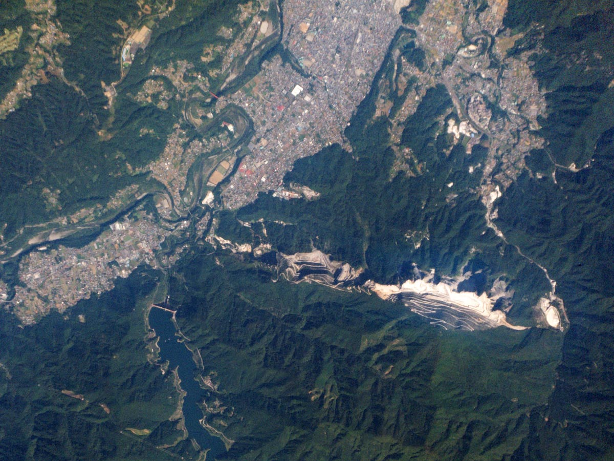 Chichibu-shi, Japan (about 50 miles northwest of Tokyo) consists of a mixture of urban, industrial, and natural landscapes. The city is at the top of the image, with a limestone quarry just below. A reservoir and forested mountains fill the bottom of the image.